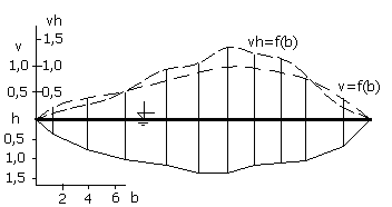 computation of discharge - Harlacher method